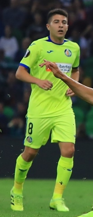 Francisco Portillo with Getafe CF in an Europa League game against FC Krasnodar.